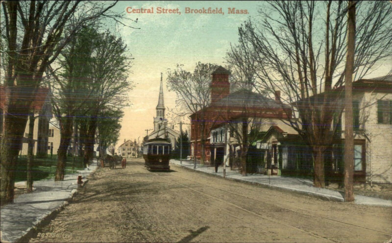 Central Street, Brookfield, Massachusetts